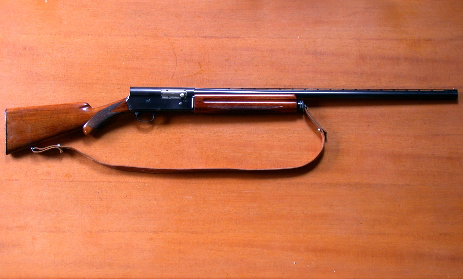 Browning Auto 5 self-loading Shotgun